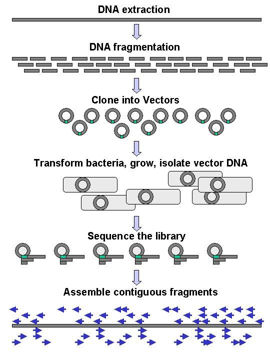 Workflow for sequencing genomic DNA.